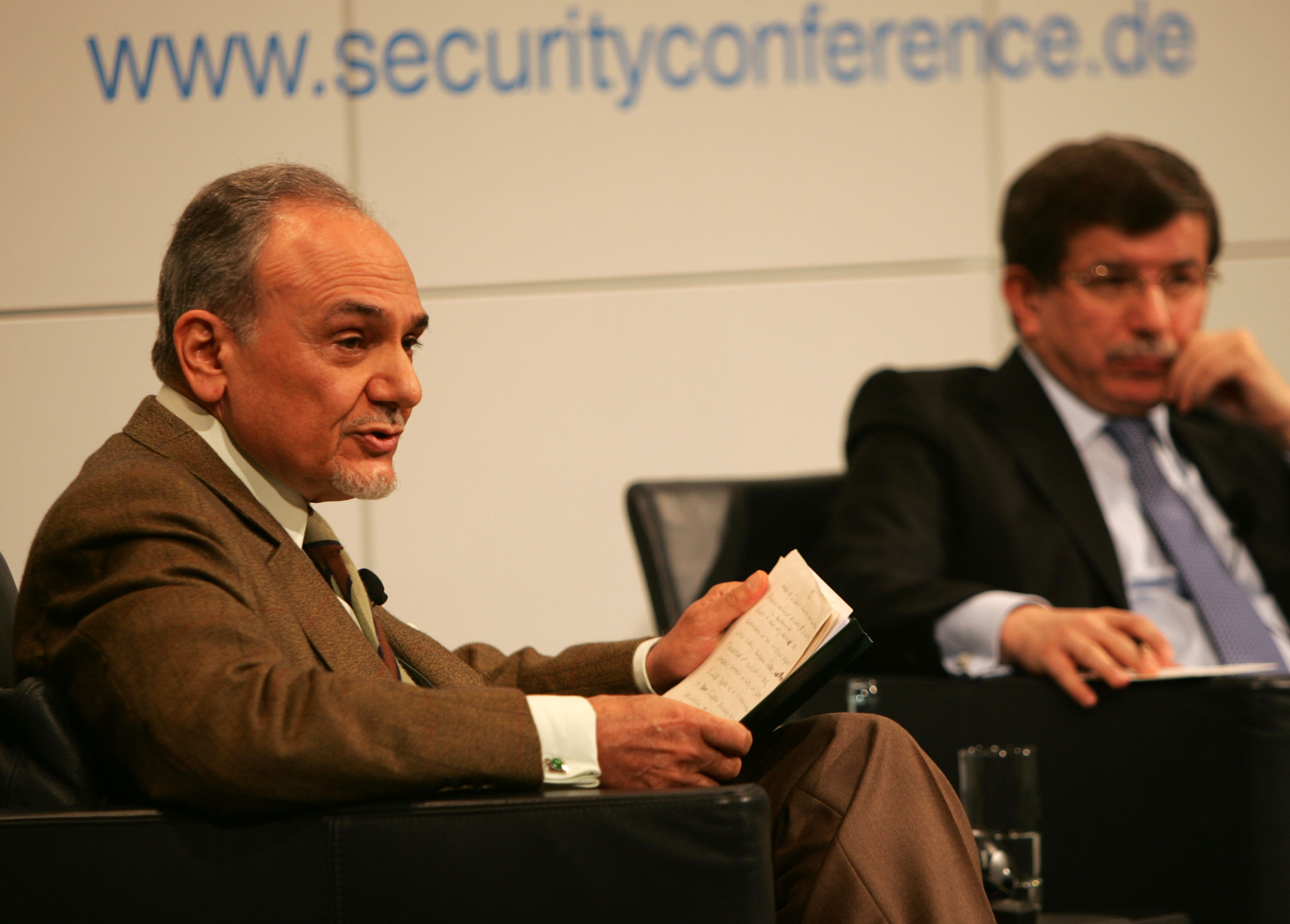 46th Munich Security Conference 2010: Prinz Turki Al Faisal bin Abdulaziz Al Saud (le), Chairman, King Faisal Center, and Prof. Dr. Ahmet Davutoglu (ri), Minister of Foreign Affairs, Republic of Turkey.